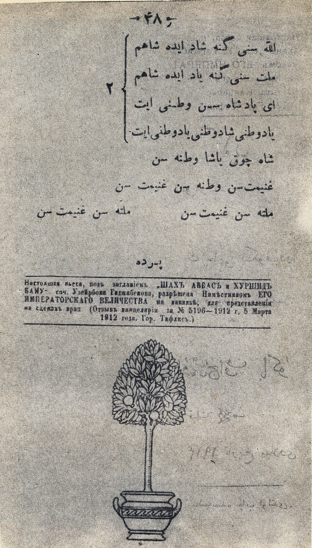 Page from libretto of opera "Shah Abbas and Khurshud banu"